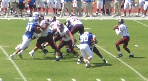 Marcus Vick (en) drops back to pass for the Virginia Tech Hokies against Duke University